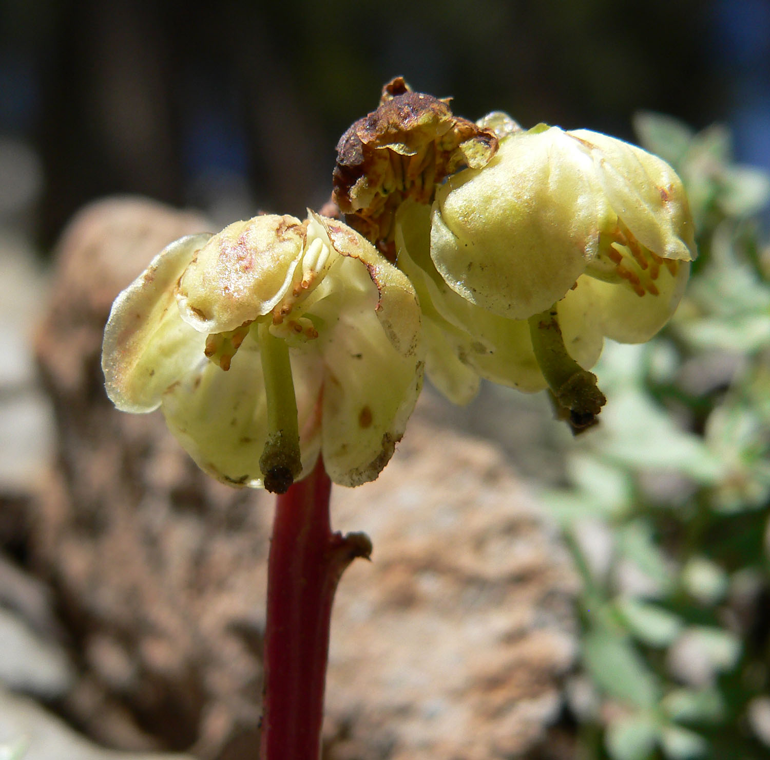 Pyrola chlorantha alongside the upper South Loop trail, Spring Mountains, southern Nevada (elev. about 2800 m)